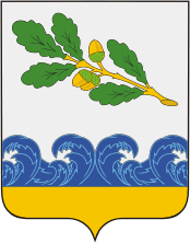 Sestroretsk (Leningrad oblast), coat of arms